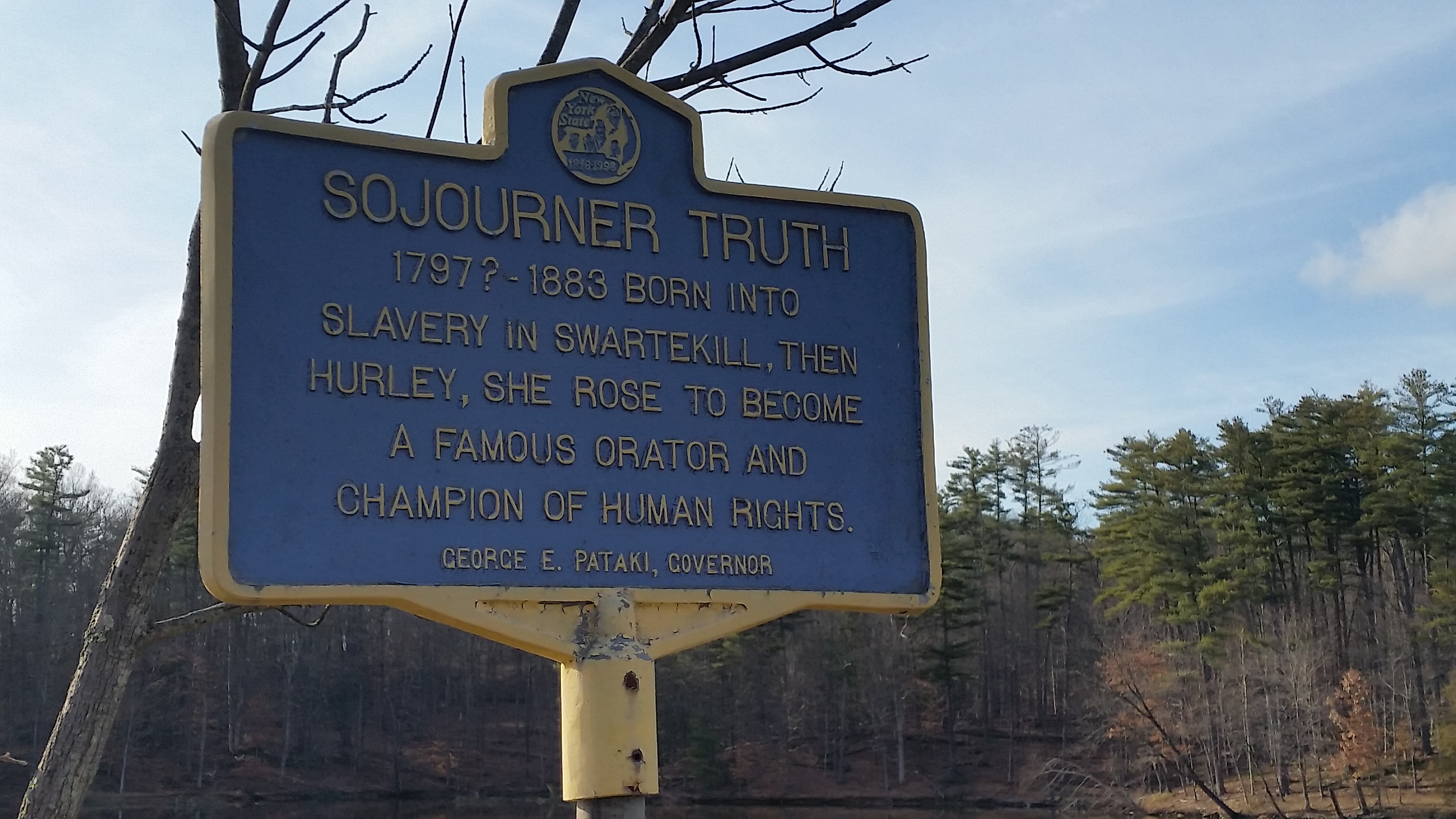 NY State historical marker along the path of Sojourner Truth's flight to freedom (there are two similar markers, this is the one at the Sturgeon Pool in Rifton)